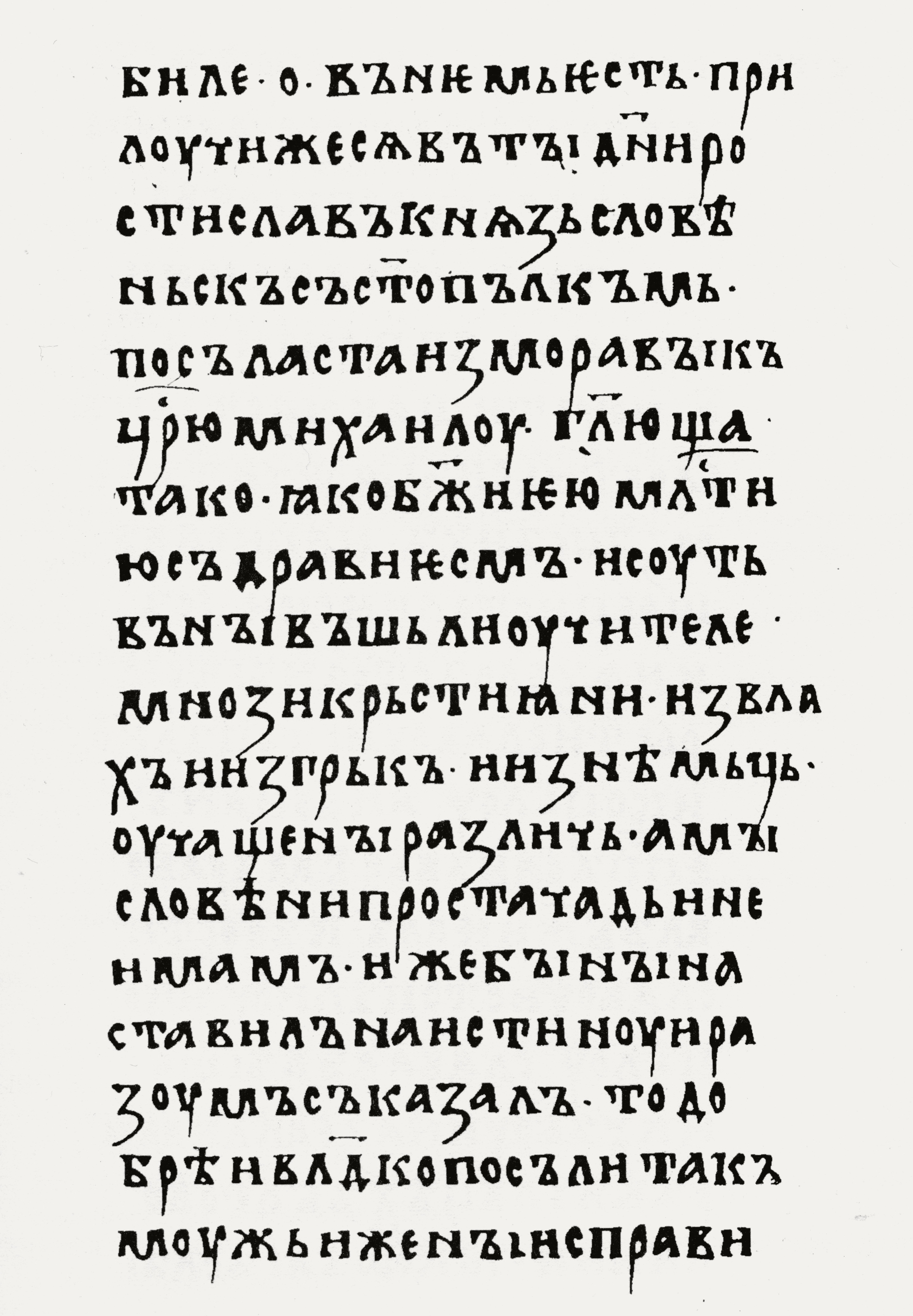 Cyrillic text from the fifth chapter of the legend Life of Method. Manuscript from the 12th to the 13th century in the collection of the Uspenski Cathedral in Moscow. Reproduction in O. Bodjanski: Snimki k sočineniju O vremeni proischoždenija slavjanskich pisьmen (Moskau 1855).